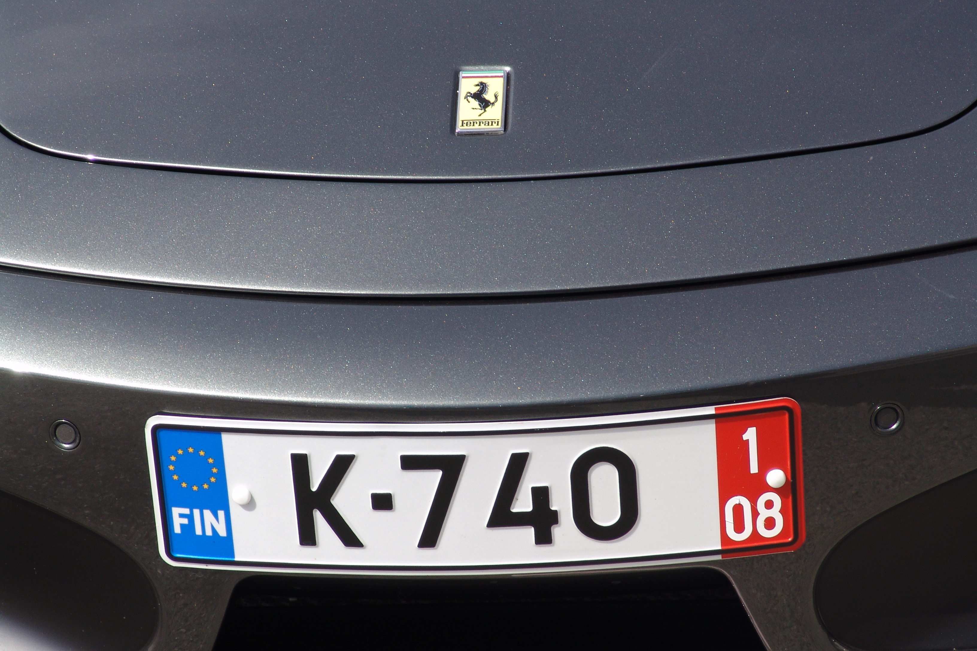 Finnish export registration license plate on a Ferrari F430 Spider, picture taken in Monaco